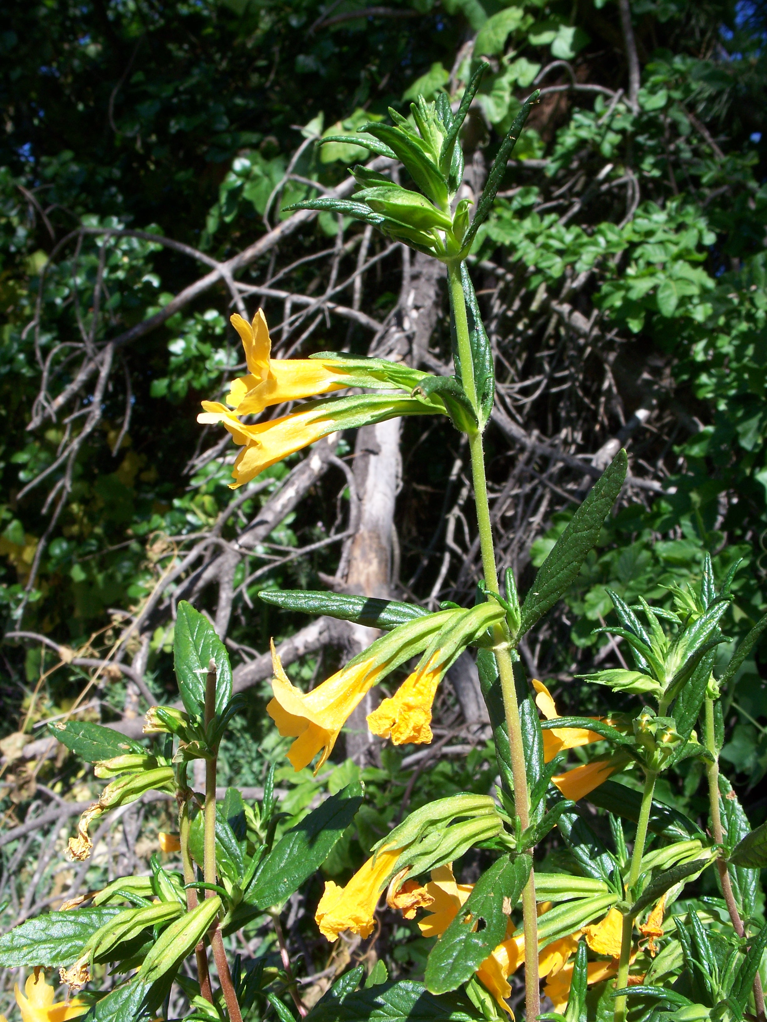 Orange Bush Monkey-flower, Sticky Monkey-flower — Mimulus aurantiacus. Eastern Santa Cruz Mountains, California.